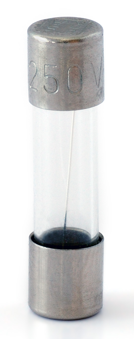 This image shows an electrical fuse.